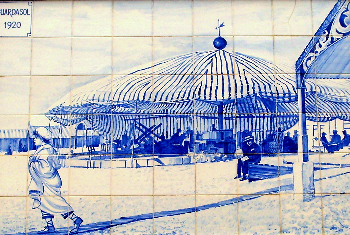 guardasol beach bar in 1920 in Avenida dos Banhos - Povoa de Varzim - Portugal